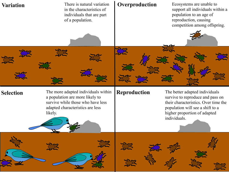 This diagram displays the four key stages of natural selection that form a cycle, that over time will cause a population to evolve. Here the beetles are all in the same population with a variation of their physical characteristics. Here the brown color is a more adapted characteristic as it allows the beetle to blend in with its environment and more likely to survive predation. As the brown color beetle is more likely to survive it is more likely to pass on its genetics to its offspring and overtime as more and more brown beetles survive and the other color beetles do not the population will shift to being a majority of brown beetles.